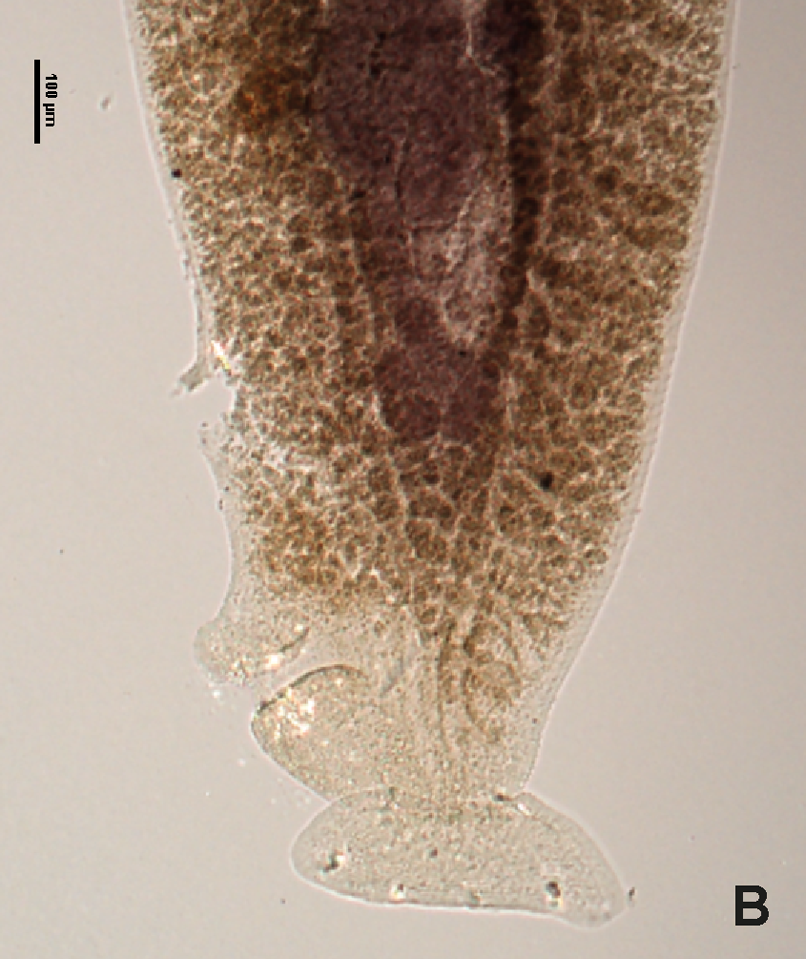 Haptor of Lethacotyle fijiensis Manter & Prince, 1953, holotype Haptor only, extracted from original composite plate Legend in published paper: Figure 2. Photograph of the holotype of Lethacotyle fijiensis Manter & Prince, 1953. Lethacotyle fijiensis Manter & Prince, 1953 urn:lsid: :act:DA367684-AAC2-​44D0-A8E8-64894AFA647A. Holotype, slide USNPC 48718. Original photographs taken by Patricia Pilitt, USNPC.